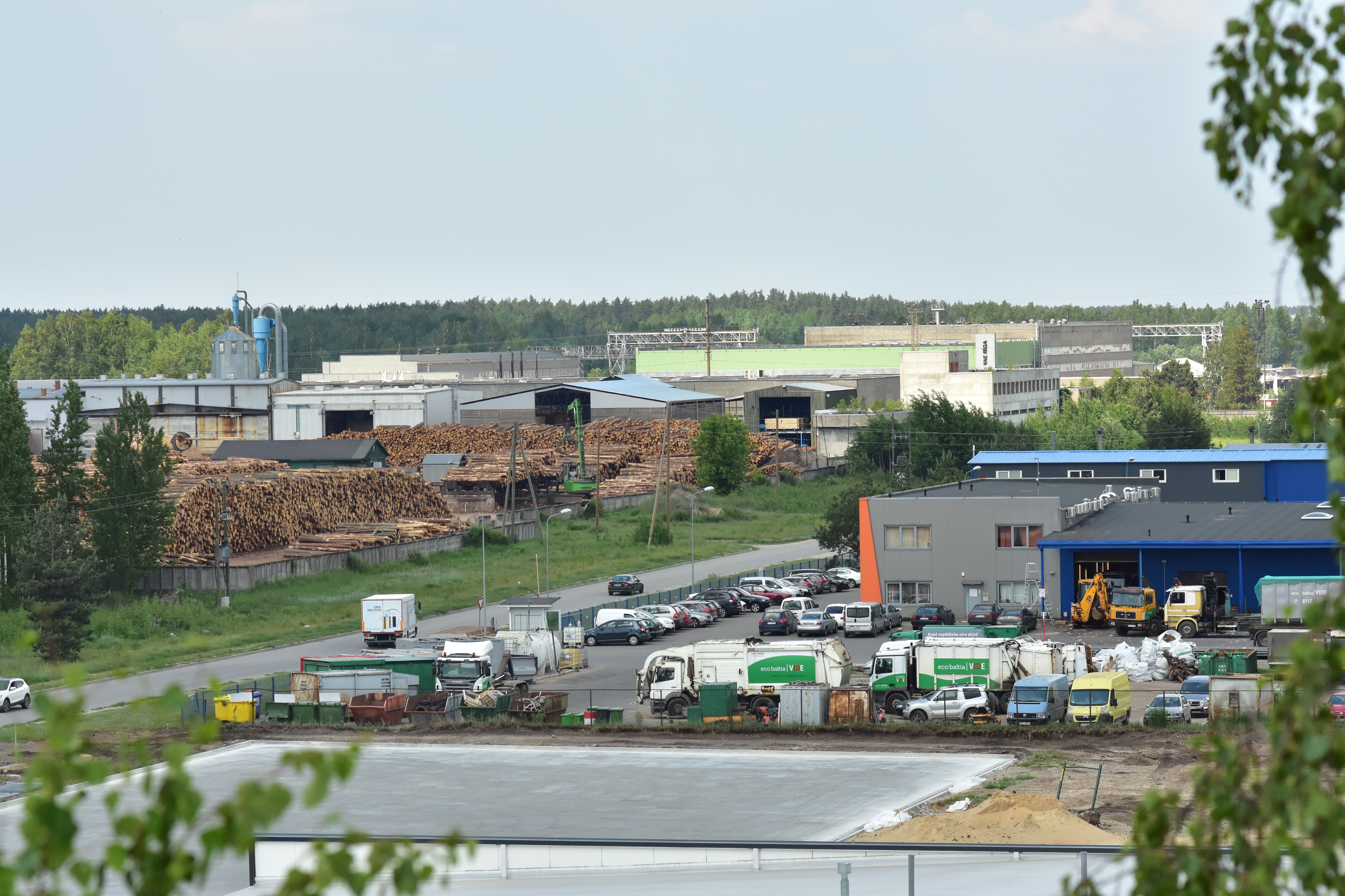 Getliņu street in Rumbula